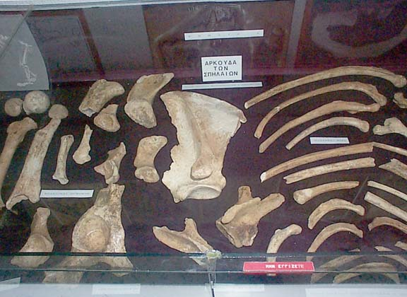 The remains of a prehistoric bear, image from the Nature and Folklore Museum, Loutra, Almopia, Central Macedonia, Greece